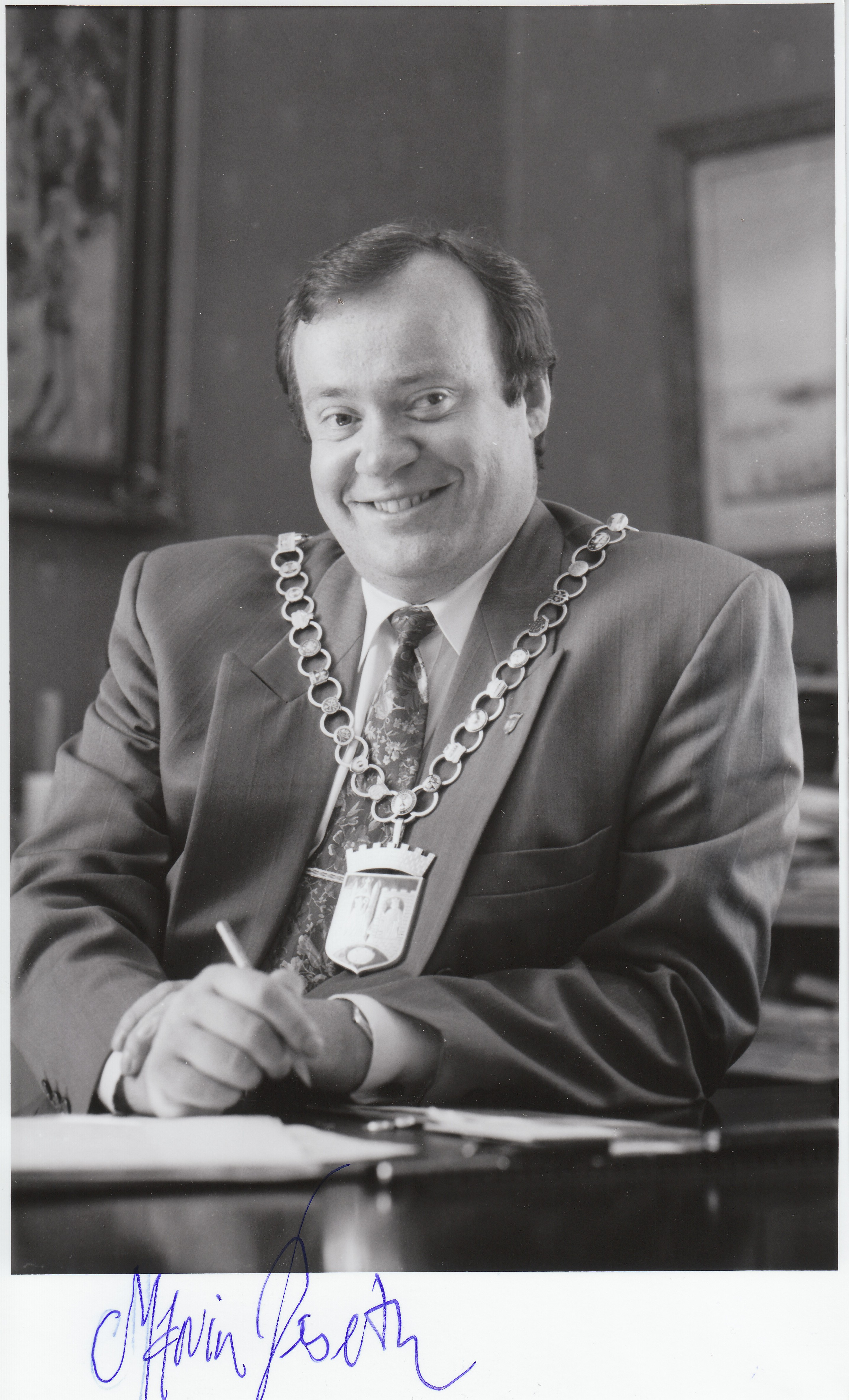 Mayor Marvin Wiseth.